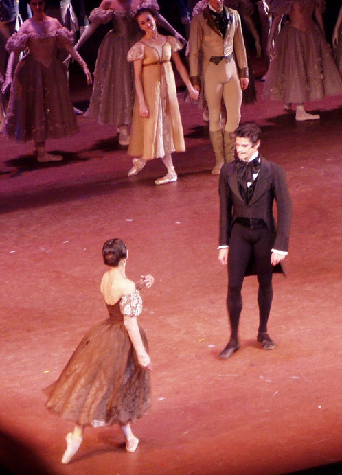 Roberta Marquez (Tatiana) and Thiago Soares (Onegin) in John Cranko's "Onegin".